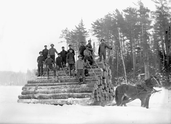 [Hauling logs in the Ottawa Valley.]. Ottawa ca1870-1940